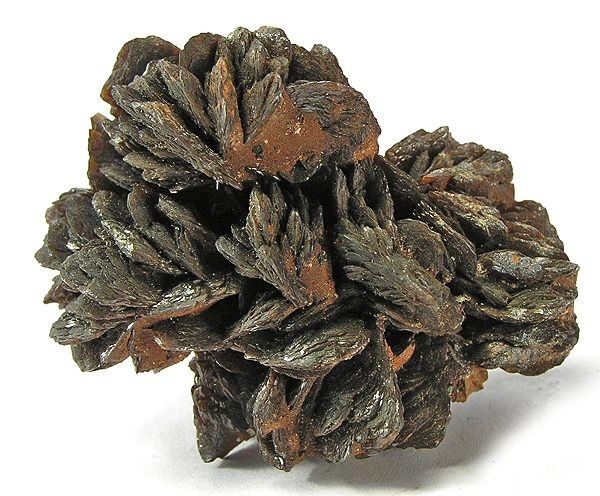 Descloizite Locality: Berg Aukas (Berg Aukus), Grootfontein District, Otjozondjupa Region, Namibia (Locality at ) Size: 6.1 x 4.7 x 2.9 cm. A striking specimen from the TOP worldwide locality for descloizites, Berg Aukus. They can take on a variety of forms from here. This one features large, sharp blades in fanned books. The color is a dark brownish-grey with attachments of a lighter-colored iron-rich mineral.